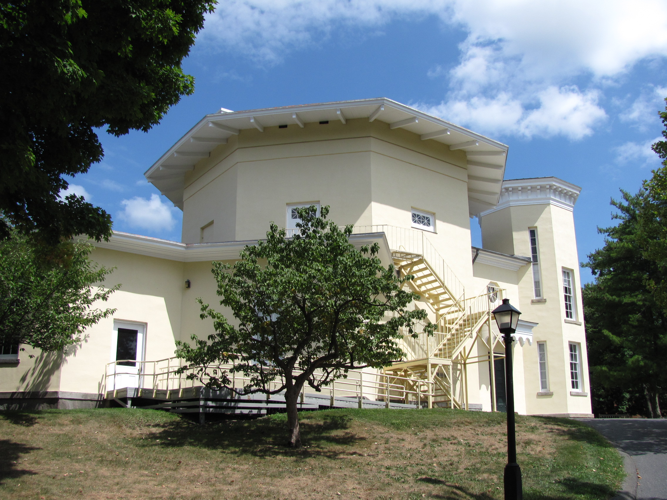 The Octagon at Amherst College, Amherst Massachusetts